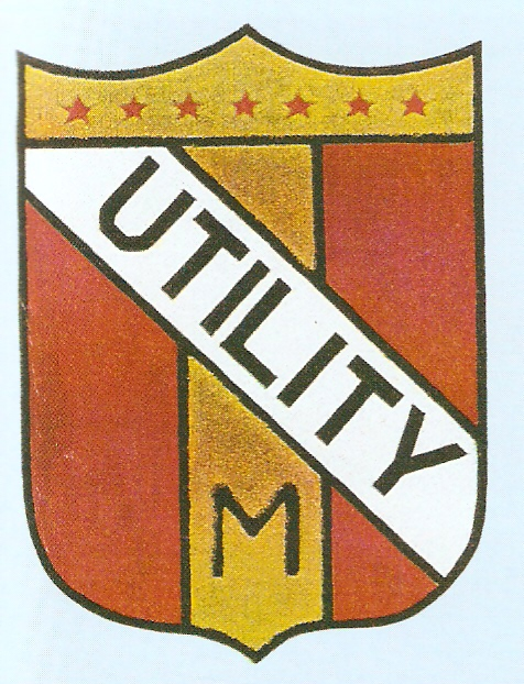 Scanned from *Crowder, Michael J. (2000). United States Marine Corps Aviation Squadron Lineage, Insignia & History - Volume One - The Fighter Squadrons. Turner Publishing Company. ISBN 1-56311-926-9. Squadron logo for VJ-7M